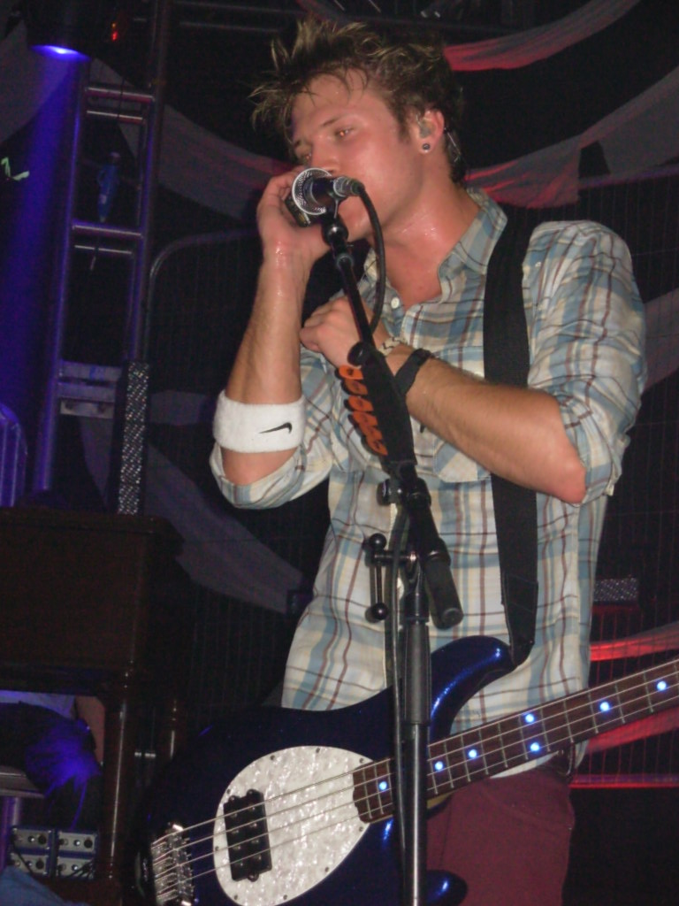 Dougie Poynter @ Cliffs Pavilion